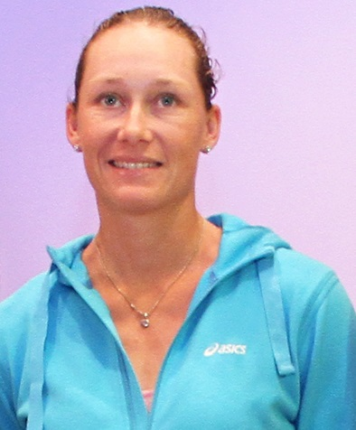 Samantha Stosur during a Press conference in Doha